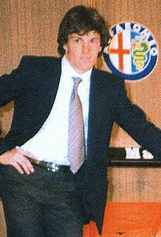 Crop of File:Alfa_Romeo_182_1982.jpg